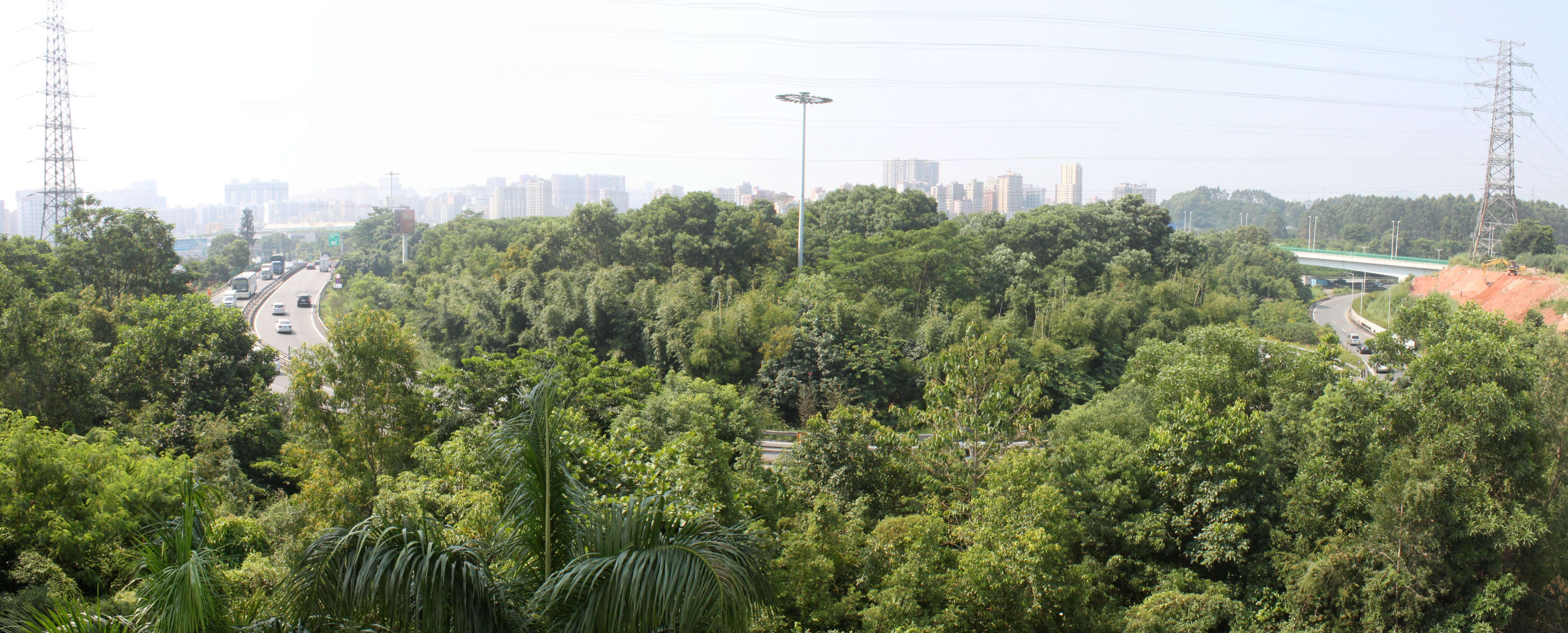 The Jihe Expressway, is a 44.31-kilometre-long Chinese ring expressway (27.53 mi) that connects Bao'an International Airport and He'ao Community of Longgang District in Shenzhen, Guangdong, China.